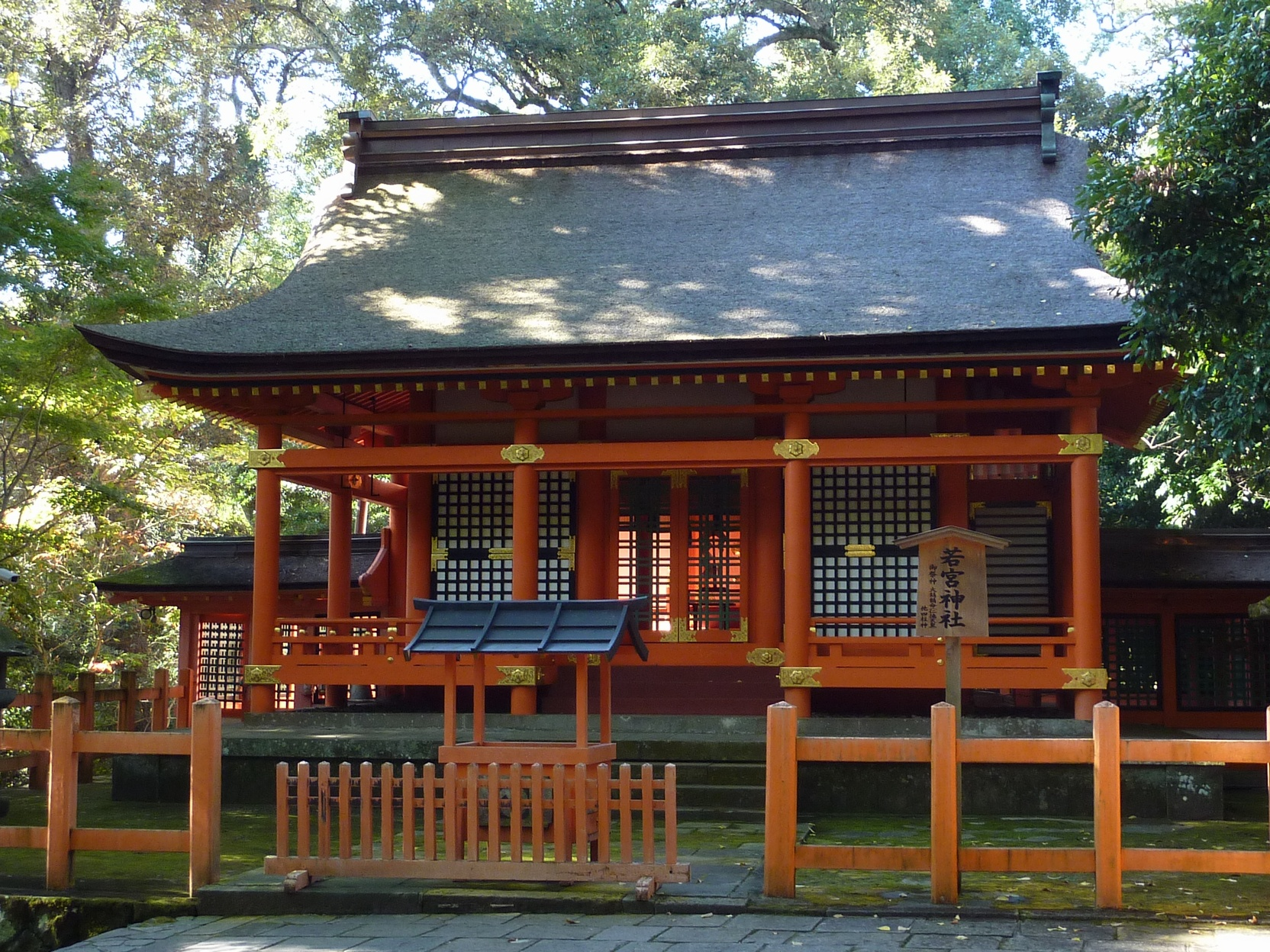 Wakamiya Shrine - Usa Shrine